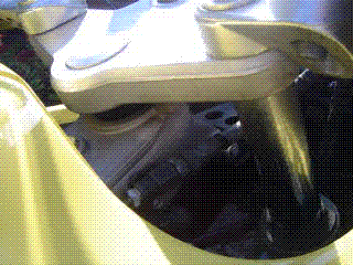 Motorcycle steering head and fork.